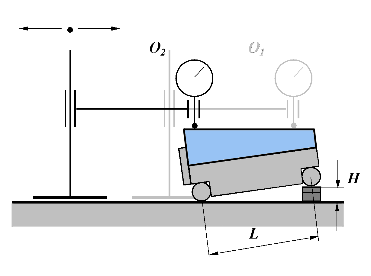 Sine bar measuring scheme